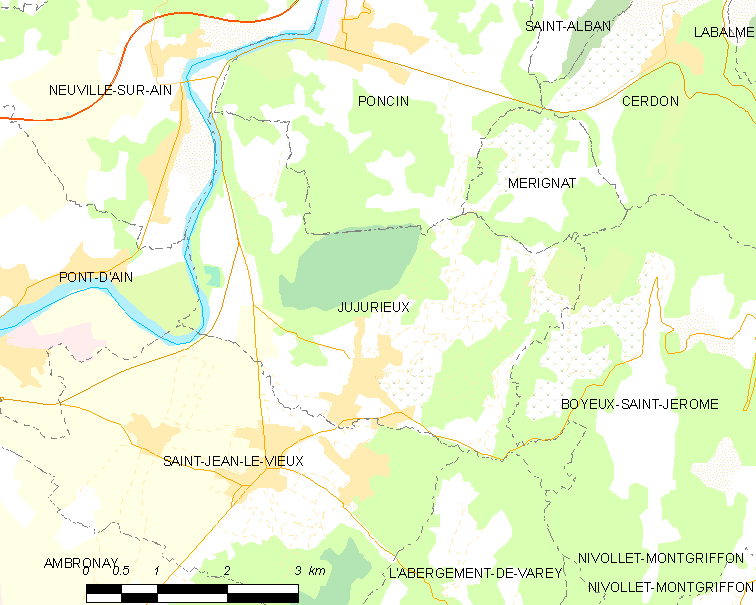 Map of French commune: Jujurieux Map commune FR insee code 01199.png